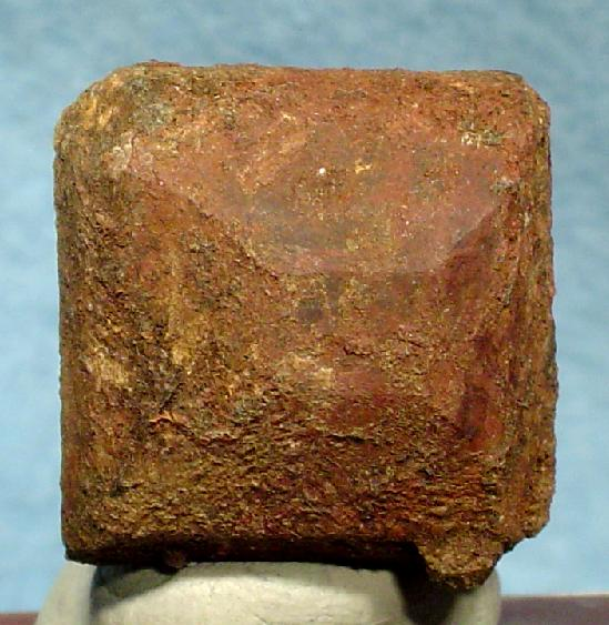 Thorite Locality: Kemp prospect (Kemp property; Kemp uranium mine), Cardiff Township, Haliburton County, Ontario, Canada (Locality at ) Size: 2.2 x 2.2 x 1.6 cm. A sharp, euhedral, pristine, rust-brown thorite crystal from the less well-known Kemp Uranium Mine in Cheddar, Ontario, Canada. This floater is remarkable for the size. It dates to the 1950s. Good thorite specimens are nearly impossible to obtain today, and specimens from Cheddar rank among the best ever found. Ex. George Elling Collection.